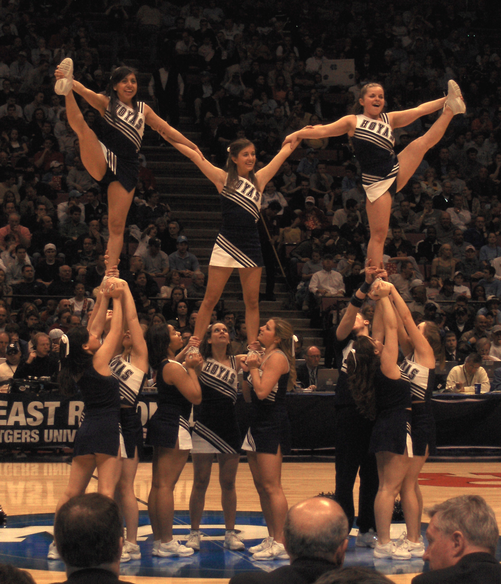 Georgetown Hoya cheerleaders perform at a basketball game